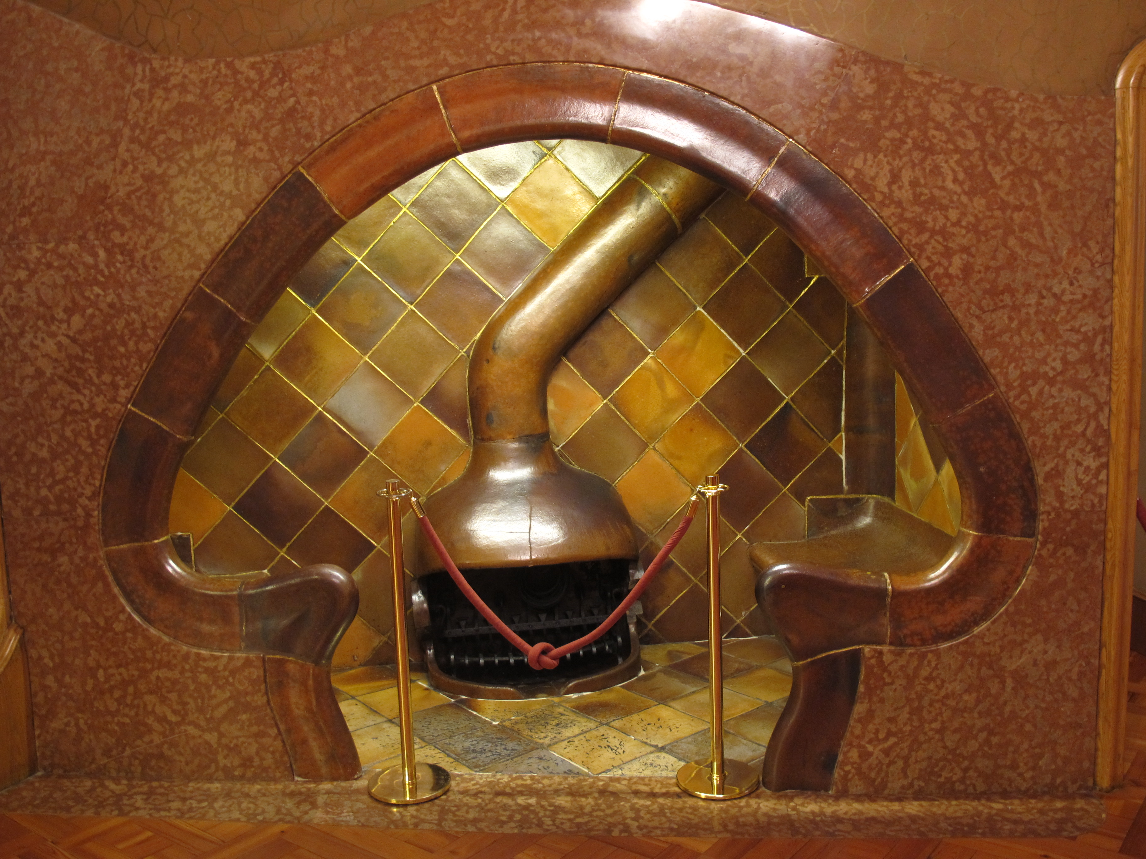 "Mushroom" fireplace with built-in seats, Casa Batlló, Barcelona